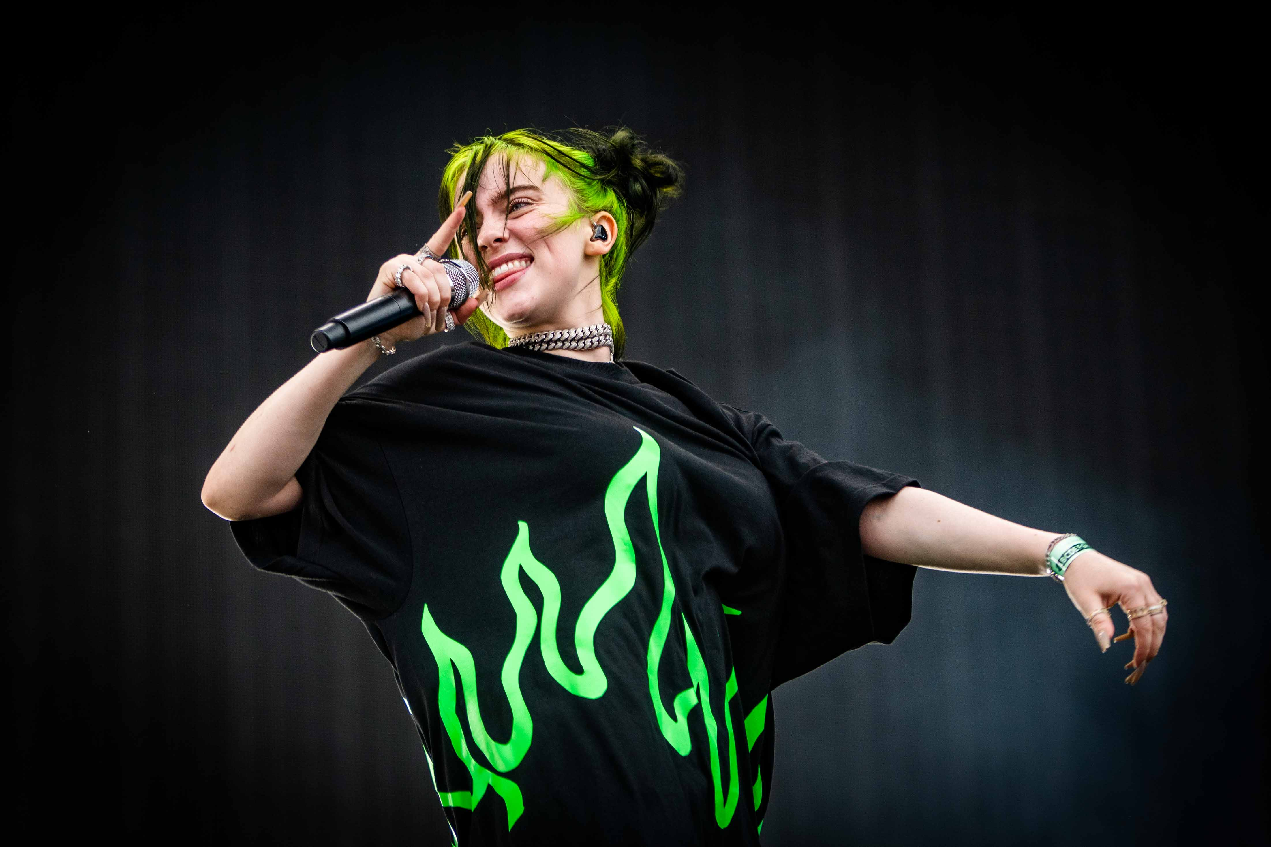 Billie Eilish at 2019 Pukkelpop Music Festival which take place in Kiewit, Hasselt, Belgium. © Lars Crommelinck Photography BillieEilish #Pukkelpop2019